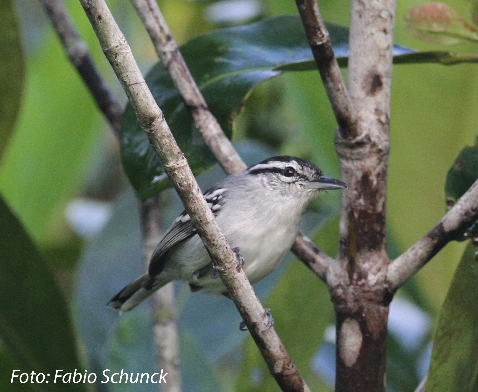 Aripuanã antwren at Machadinho d'Oeste - Rondônia - Brazil